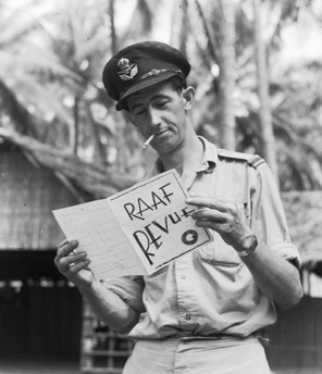 Pilot Officer Goffage RAAF (better known as the actor Chips Rafferty) reading the programme for a revue to be held at the RAAF Base at Gili Gili in the Milne Bay area.